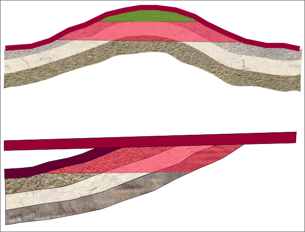 Hydrocarbon traps. Structural and stratigraphic.